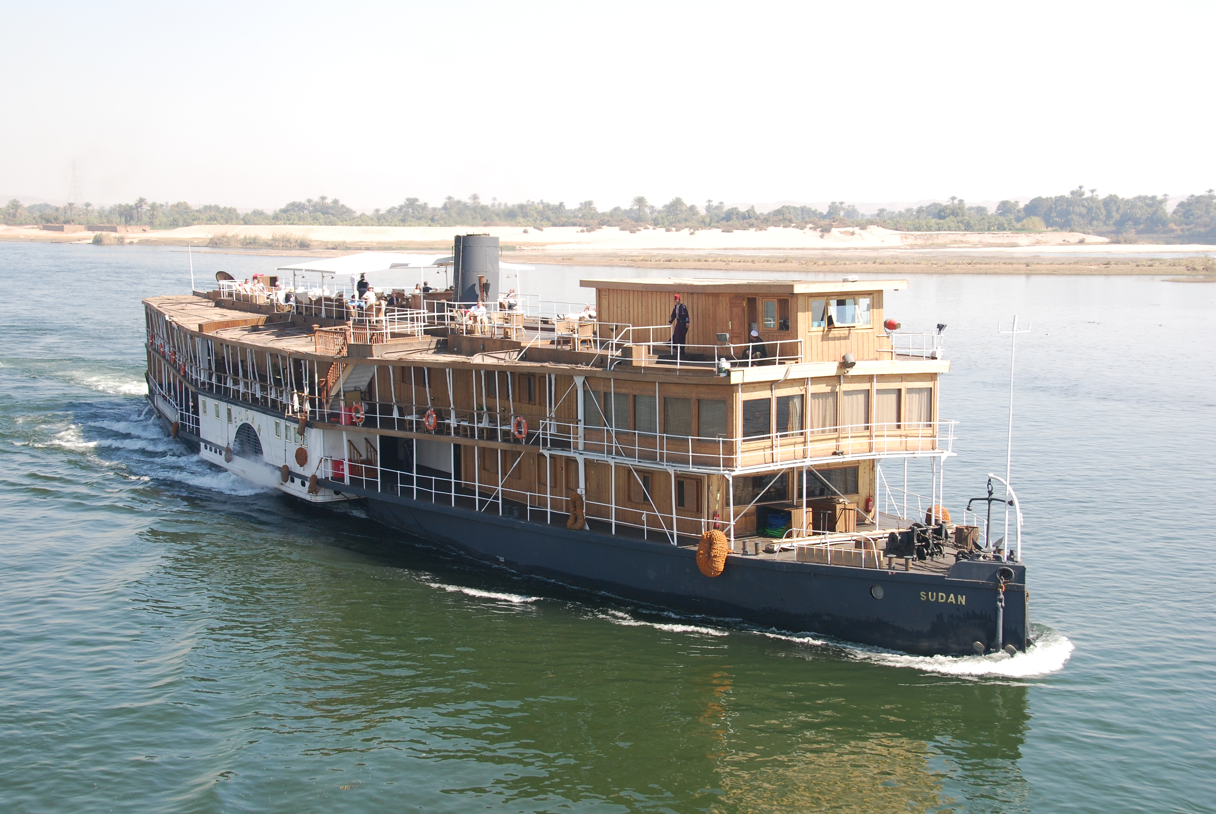 Sudan Paddle Steamer on the Nile (formerly Karnak paddle steamer)